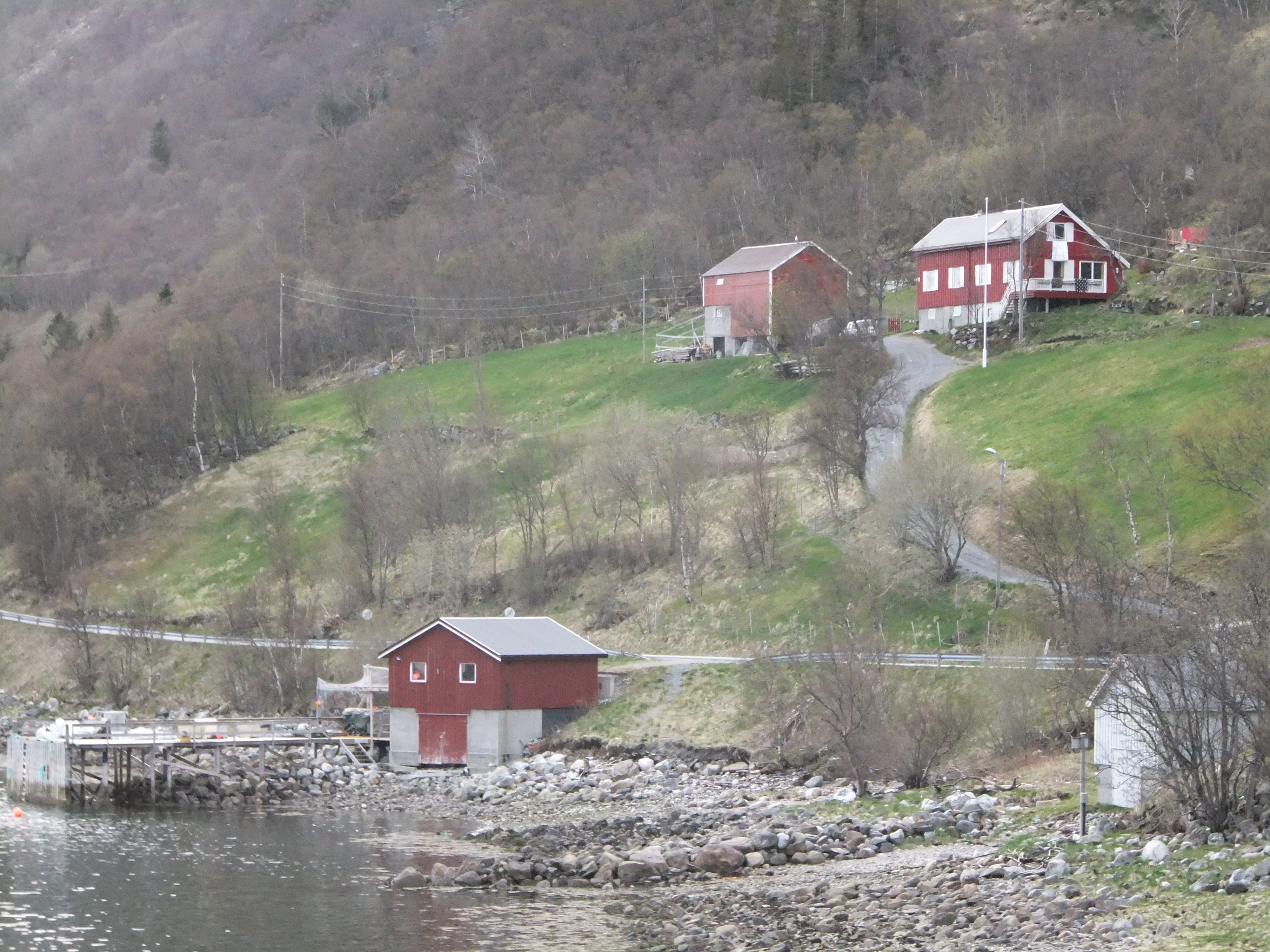 Kvina Bakkelund